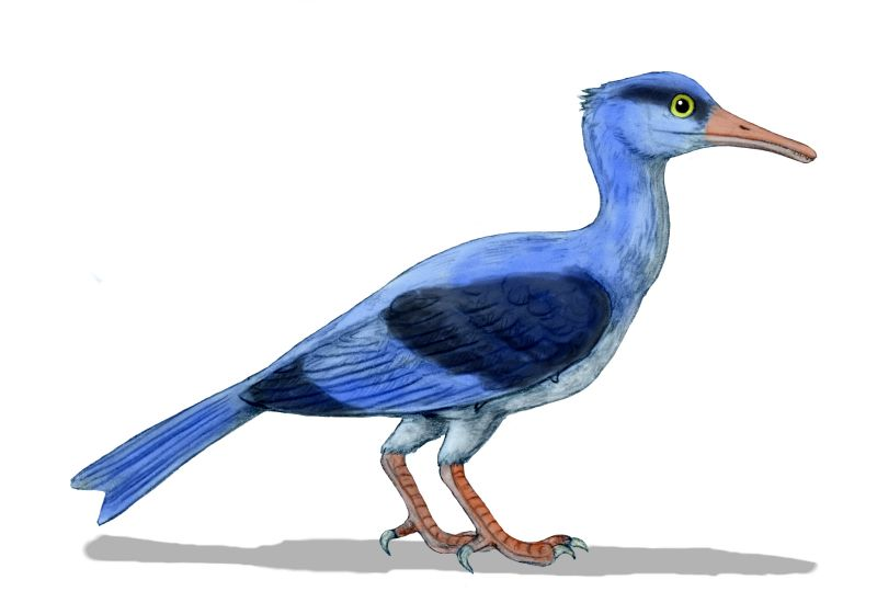 Longipteryx chaoyangensis, an enanthiornithine bird from the Early Cretaceous of China, pencil drawing, digital coloring